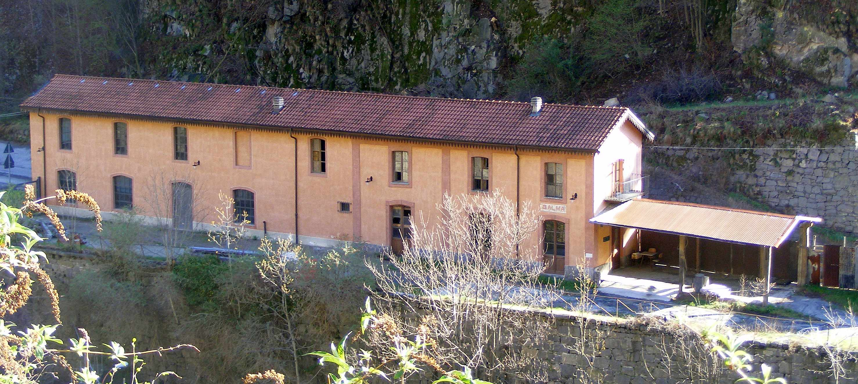 Former railway line Biella-Balma (BI, Italy): Balma station in 2012